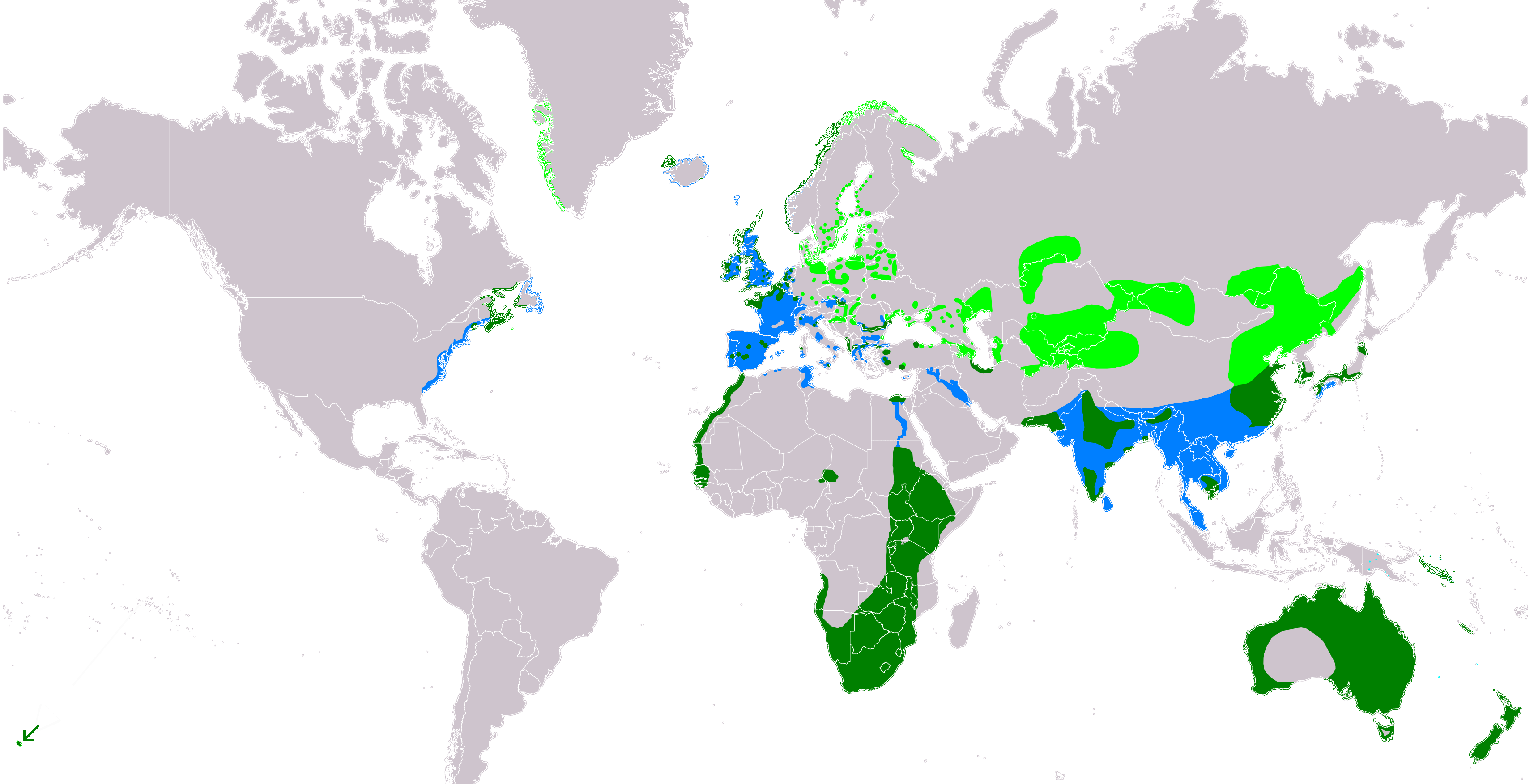 Distribution map of great cormorant (Phalacrocorax carbo) according to IUCN version 2019-2 ; key: Legend: Extant, breeding (#00FF00), Extant, resident (#008000), Extant, passage (#00FFFF), Extant, non-breeding (#007FFF)